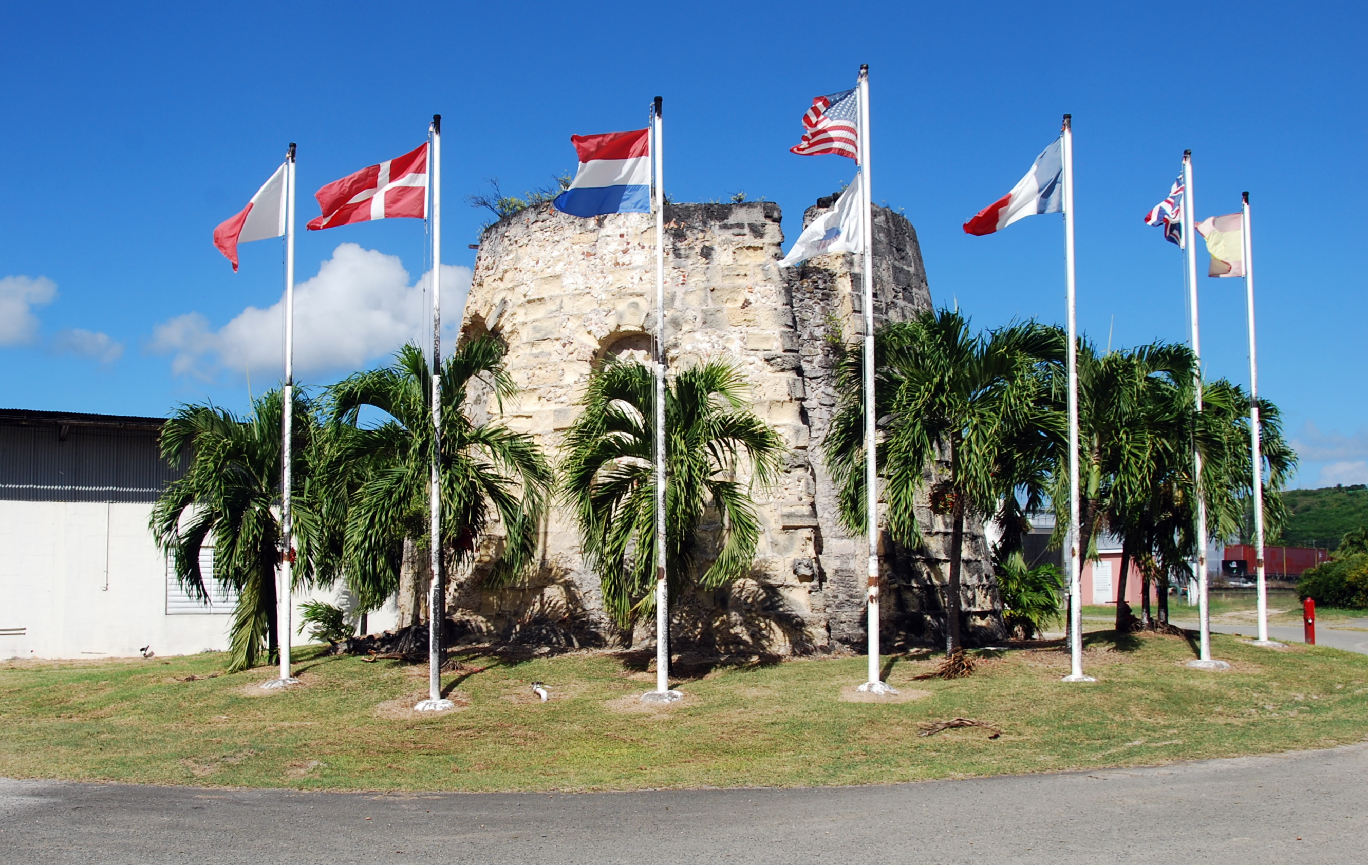 Cruzan Rum Destillery, St. Croix USVI